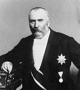 desc